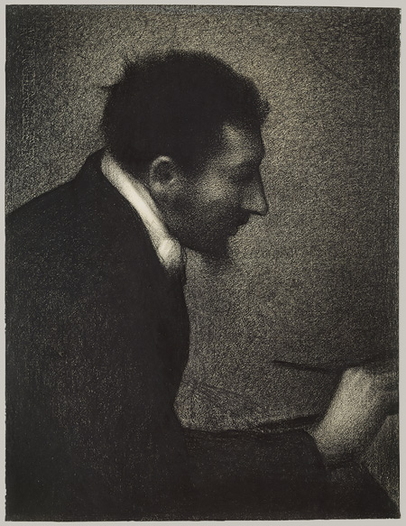 Georges Seurat's study of his friend the artist Aman-Jean (1860–1936) '